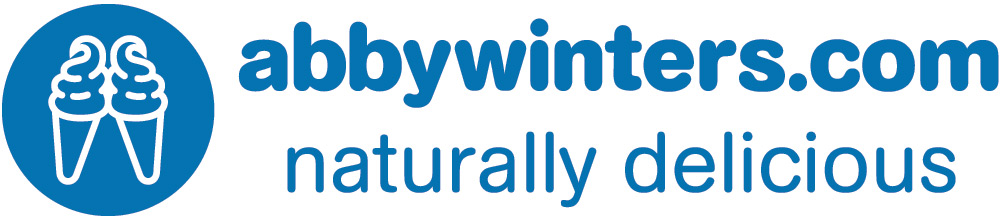 Logo for .